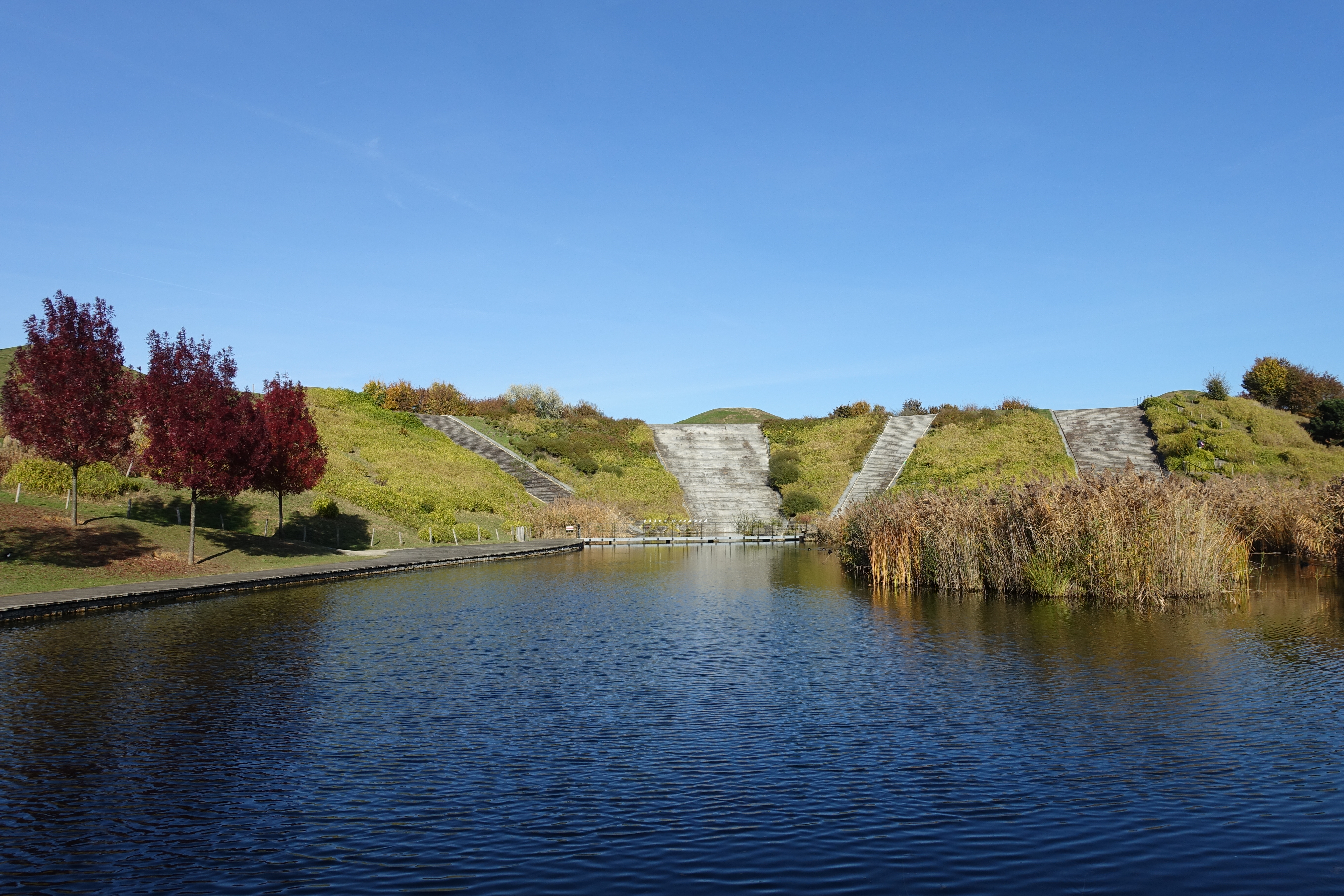 Georges Valbon Park, Seine-Saint-Denis, France.